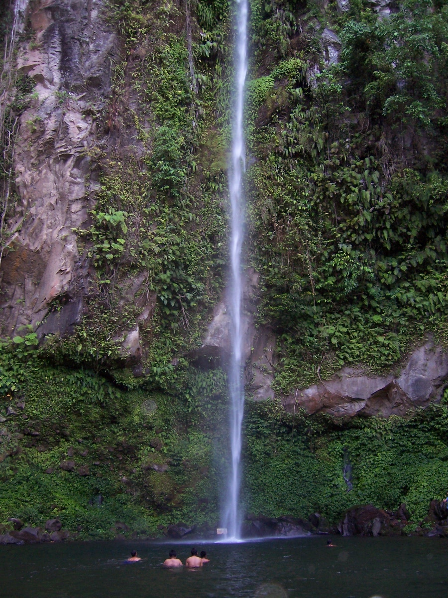 This falls measures 250 feet high, cascades to a rock pool surrounded by ground orchids, wild ferns, trees and boulders. Katibawasan Falls, Camiguin